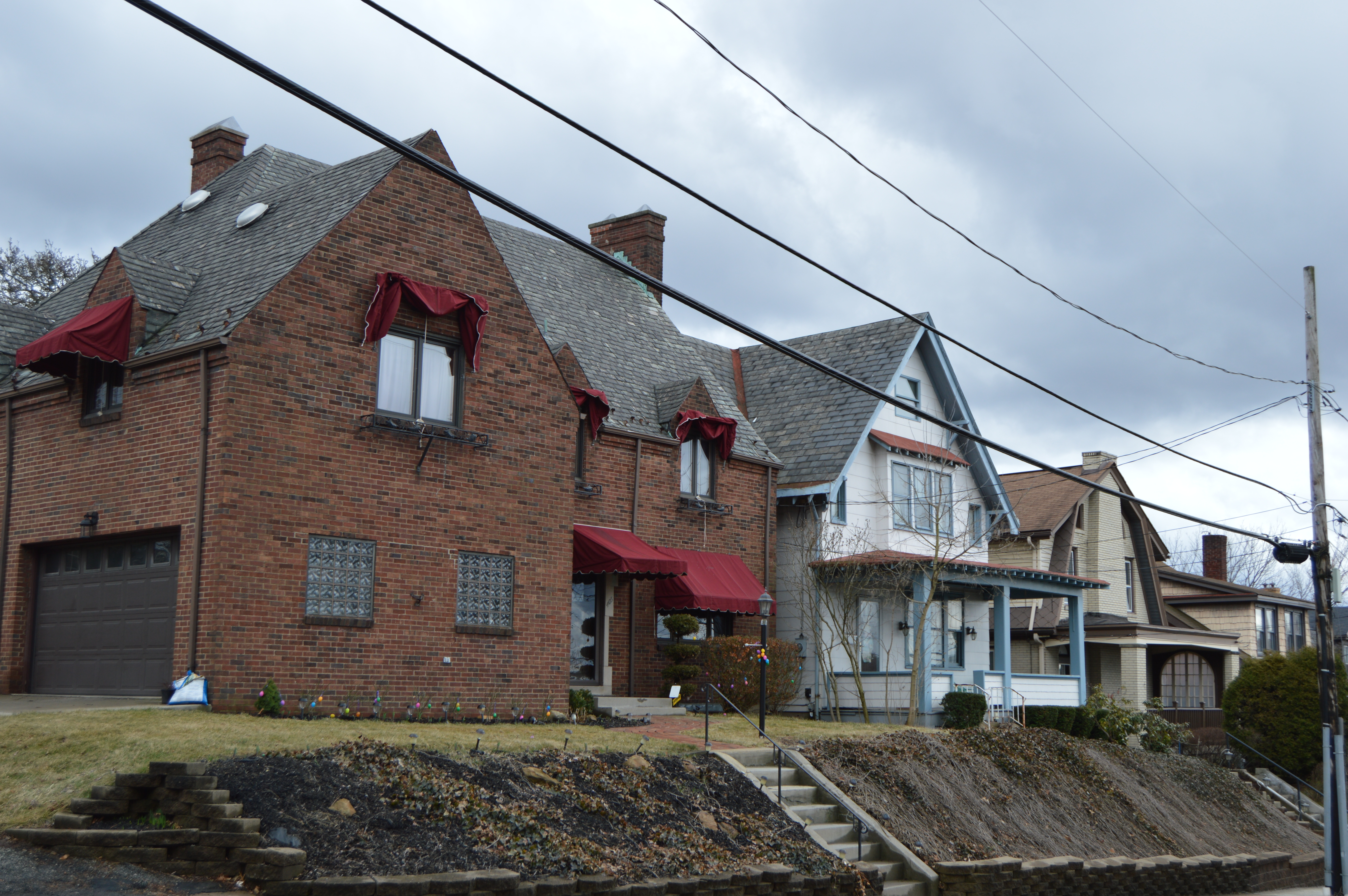 Houses on the southern side of Ridgewood Avenue just east of the intersection with Perry Highway (U.S. Route 19) in West View, Pennsylvania, United States.